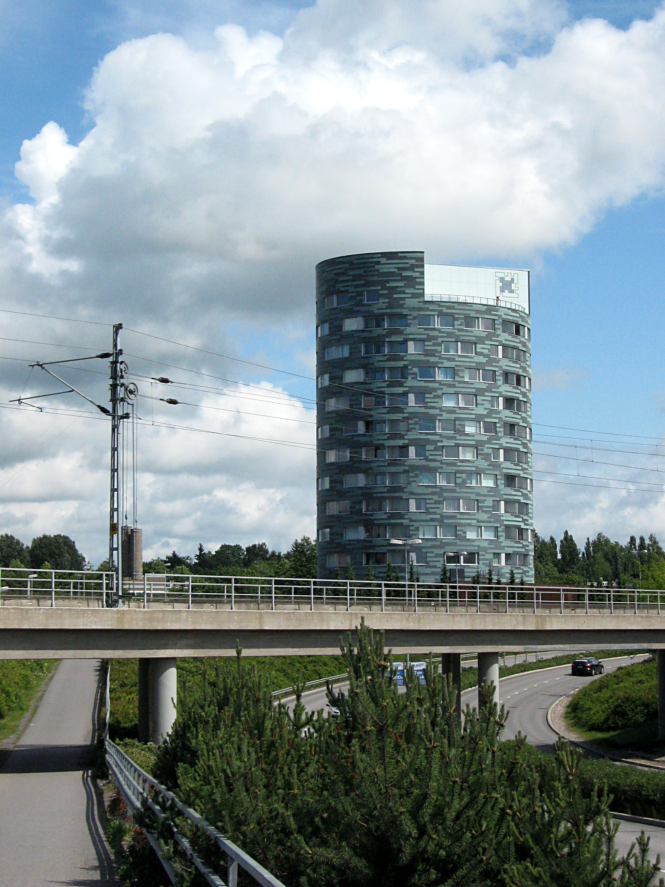 TYS ikituuri is a 12-storey building in Turku, Finland.